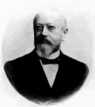 portrait of Theodor Christian Lohmann